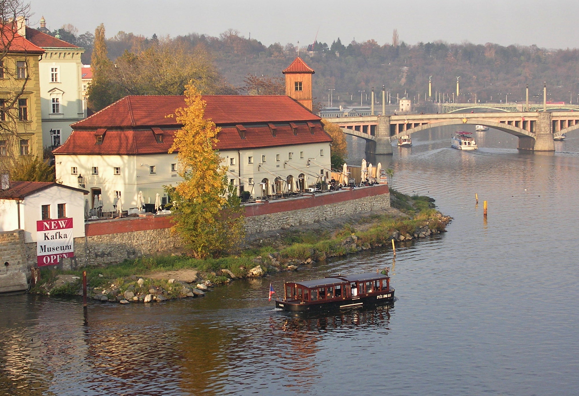 Malá Strana, Prague. Puškvorec Boat and Franz Kafka Museum.